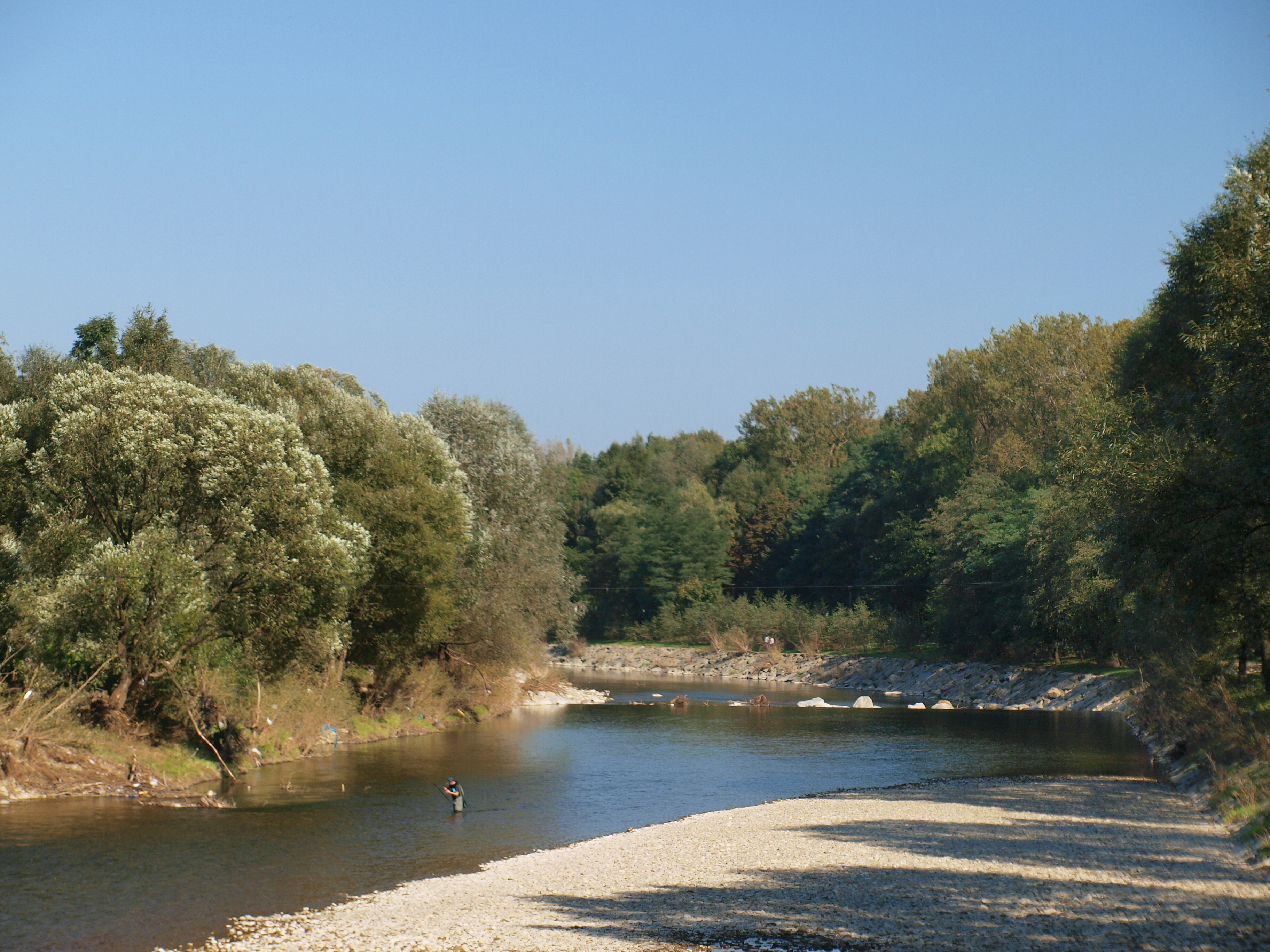 Raba in Myślenice